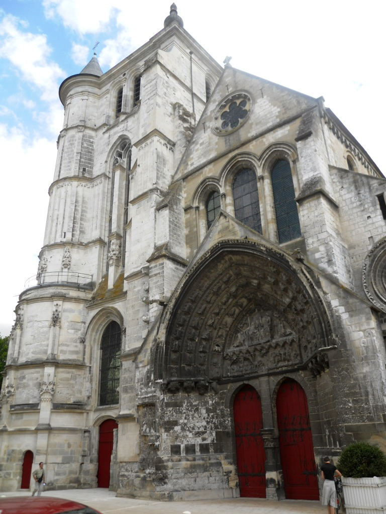 Beauvais, St. Etienne, western front